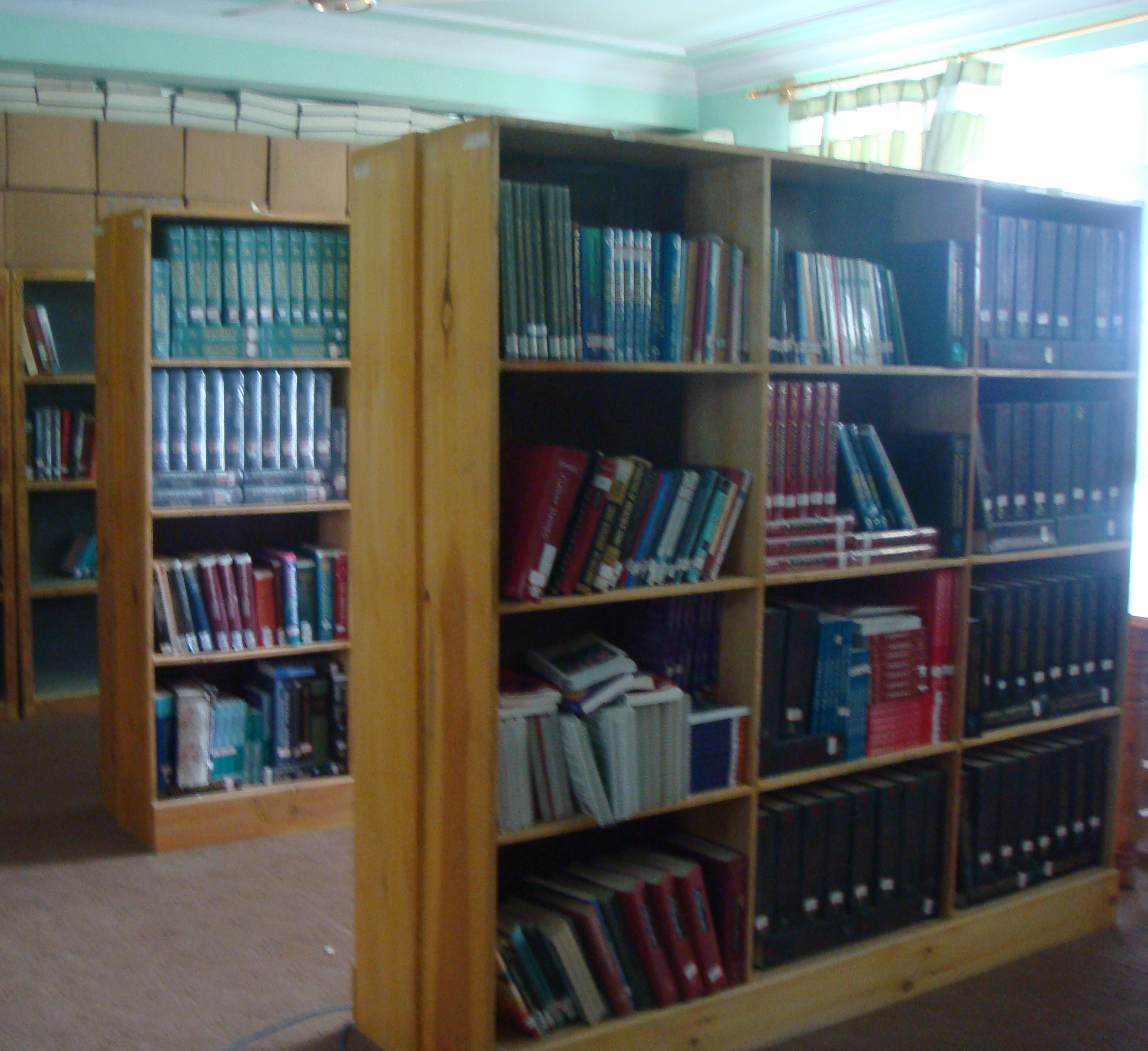 Central Library of Kandahar University